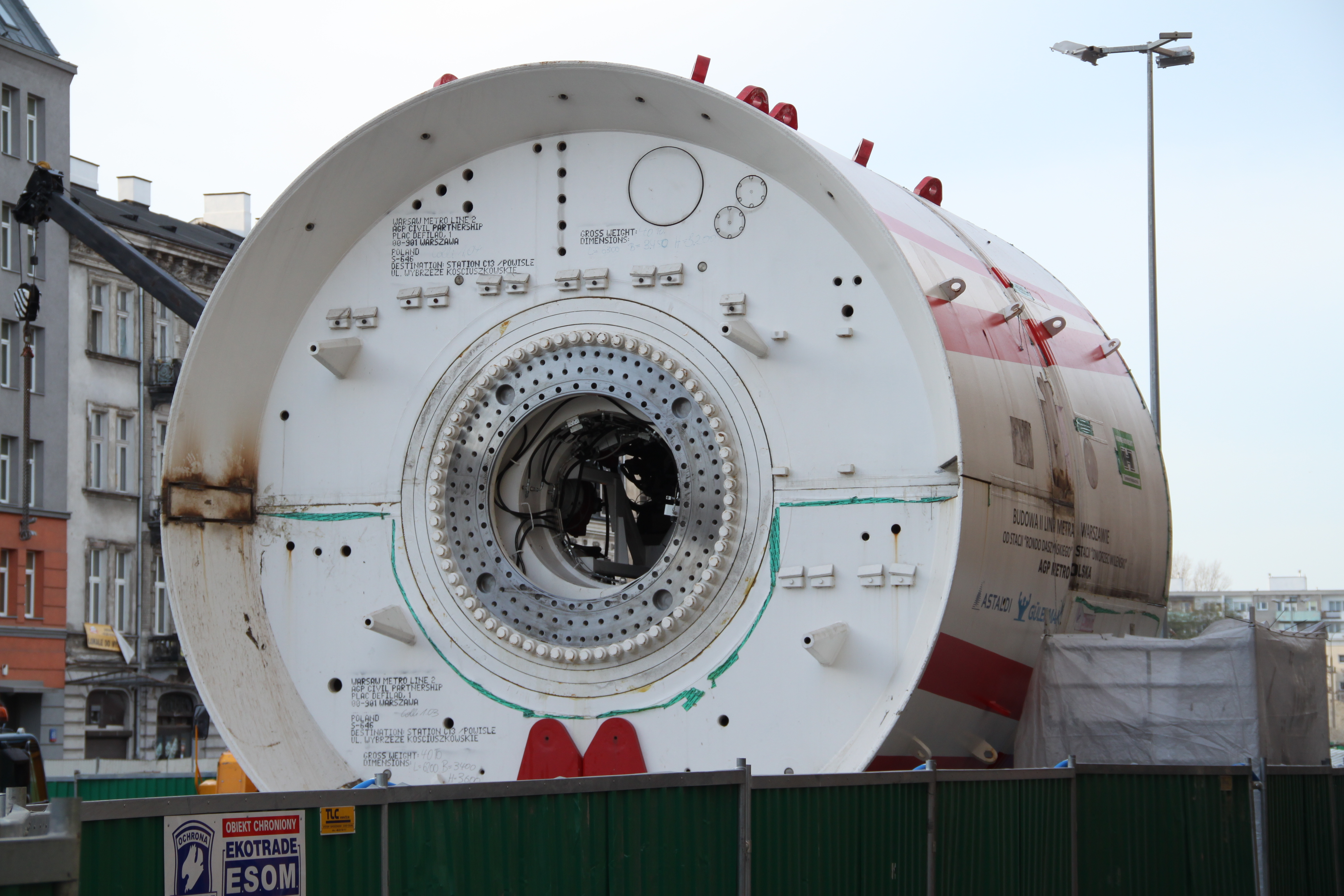 Tunnel boring machine in Warsaw, Poland